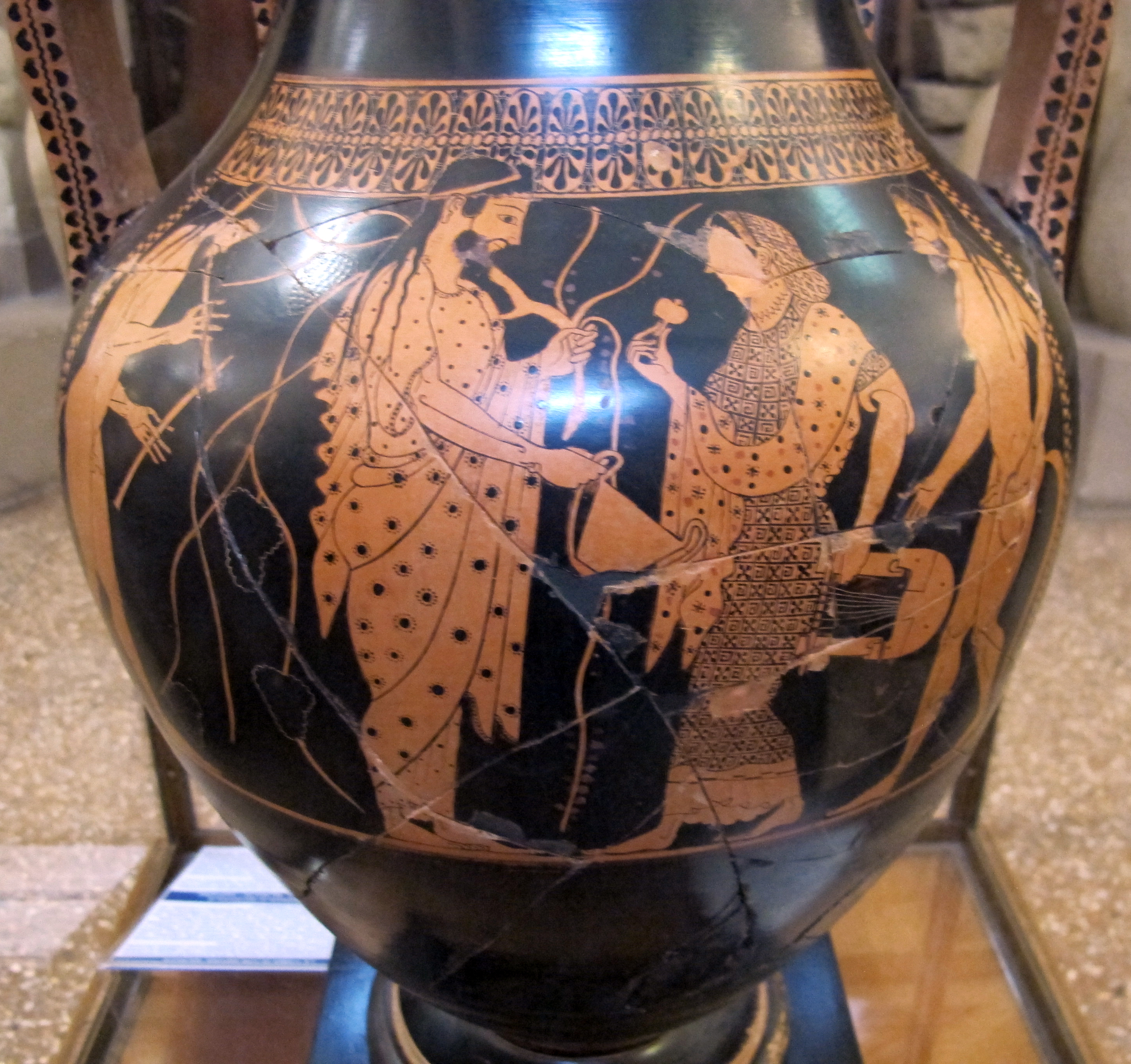 Ancient Greek pottery in the Archeological Museum of Bologna